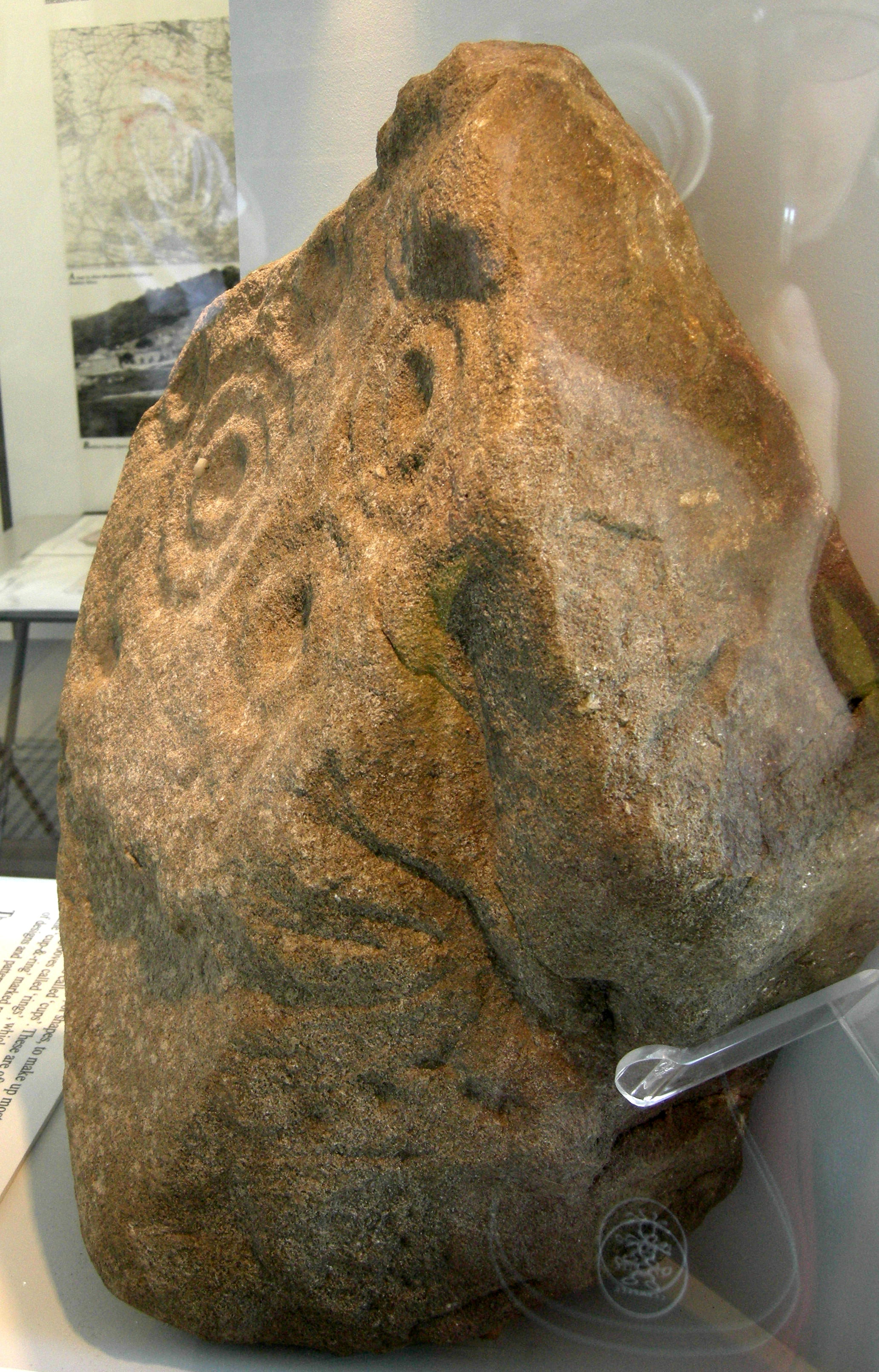 The Heygate stone with cup and ring marks, at Bracken Hall Countryside Centre and Museum, Baildon, West Yorkshire, England. Photographed through glass.